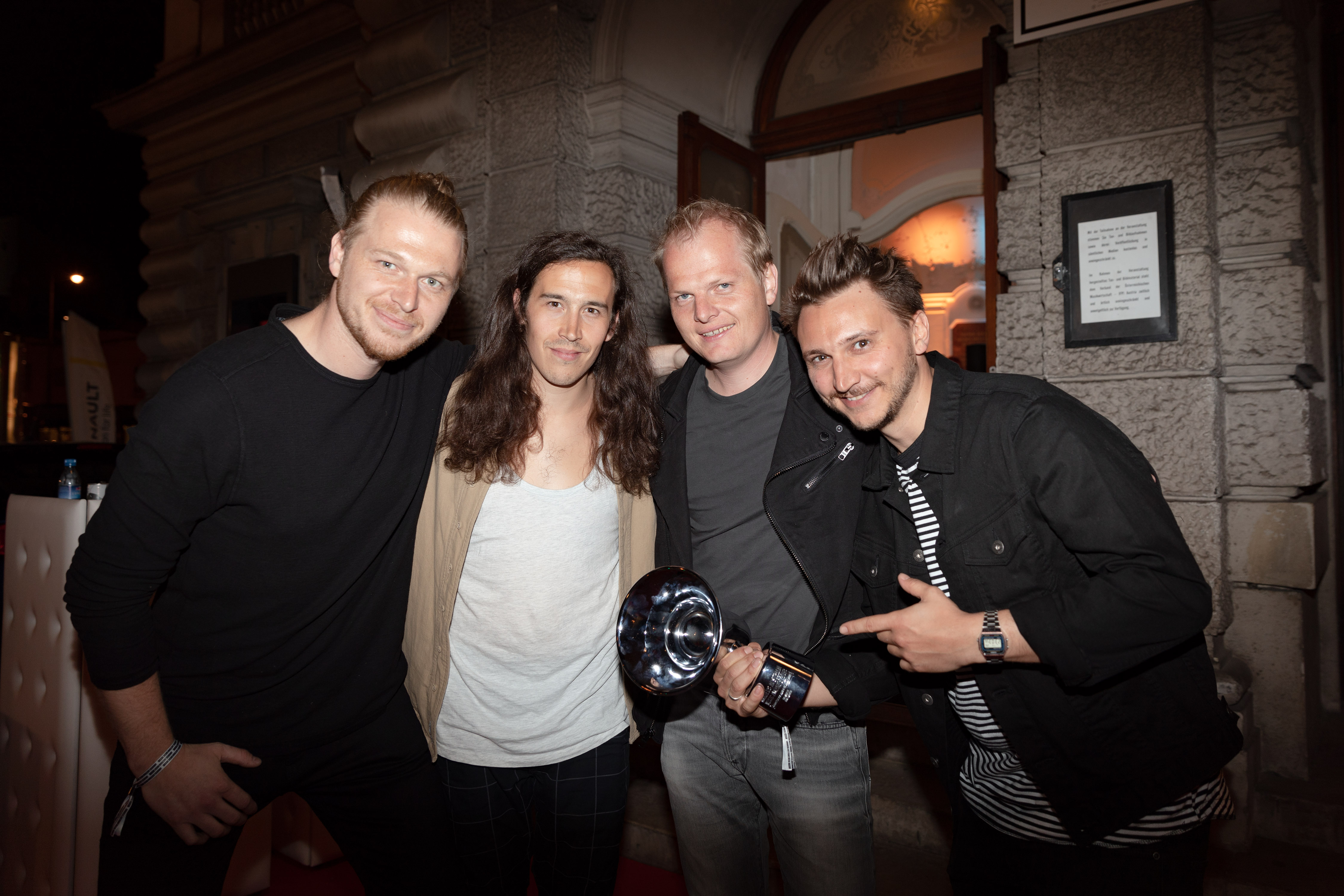 Mathias Kaineder, Gabriel Haider and Florian Ritt (Folkshilfe) with Paul Slaviczek at the Amadeus Austrian Music Award 2018 at Volkstheater in Vienna.